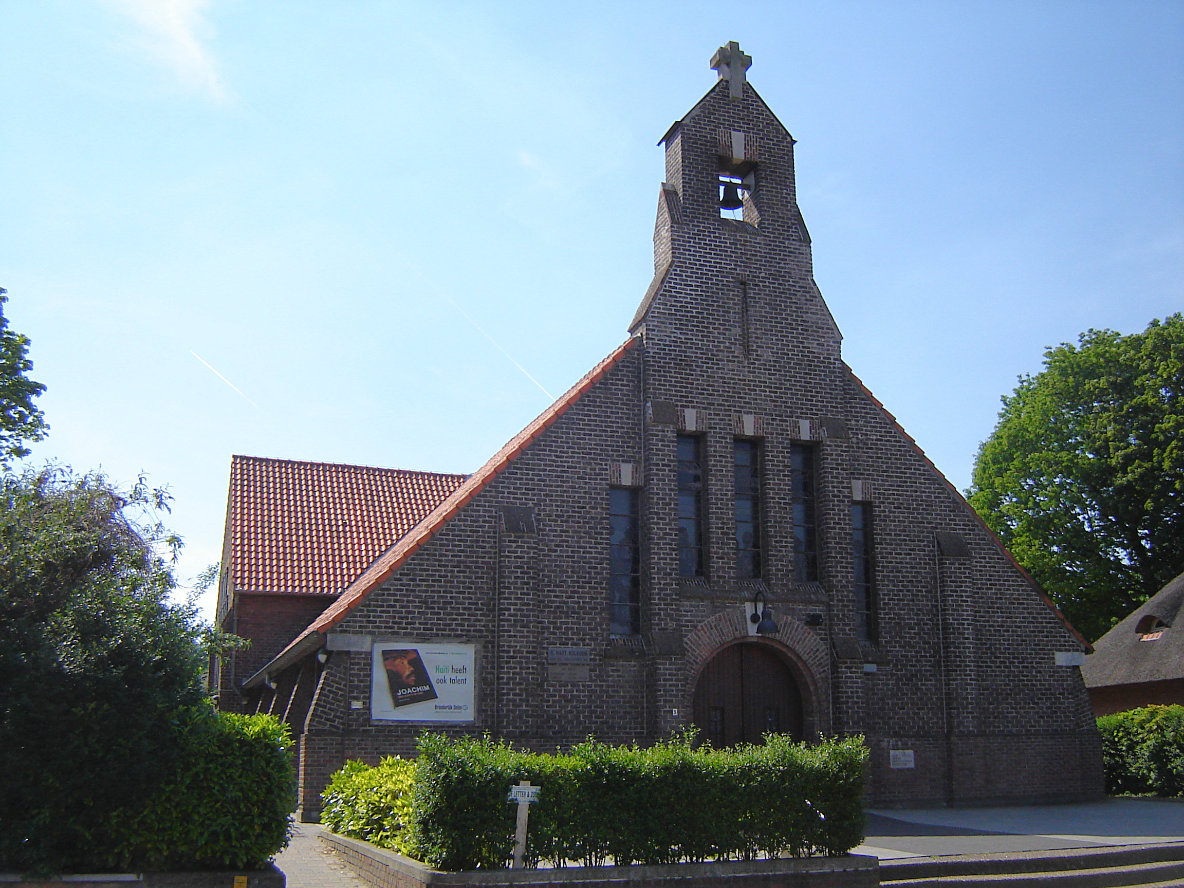 Church of the Sacred Heart in the Kolegem quarter in Mariakerke (Gent). Mariakerke, Gent, East Flanders, Belgium